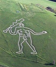 Cerne Abbas Giant in 2001.